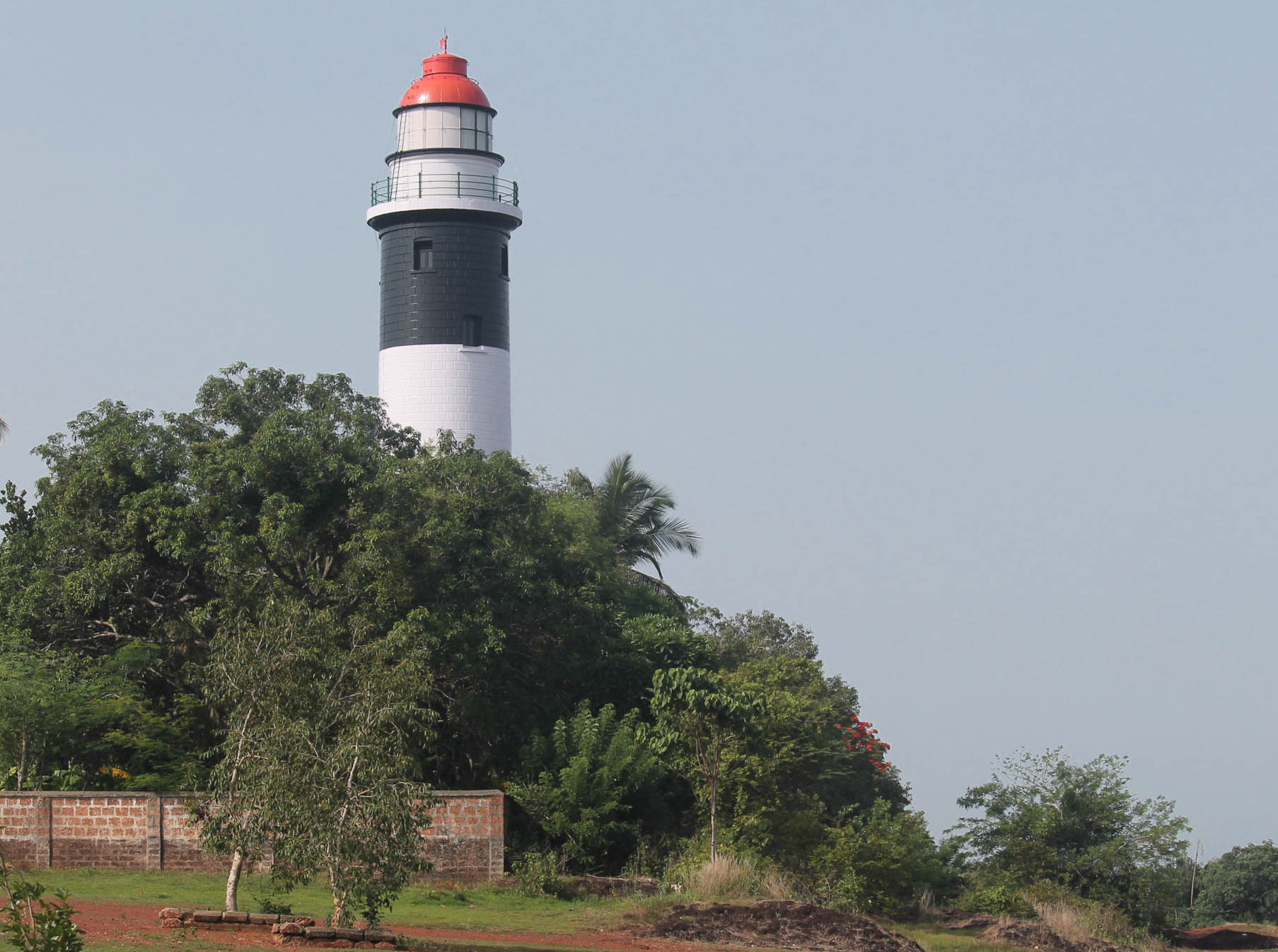 Kadaloor Point Lighthouse. View from outside the gate.